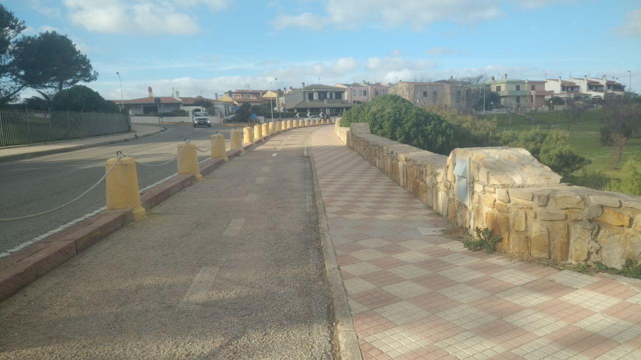 Porto Torres veduta